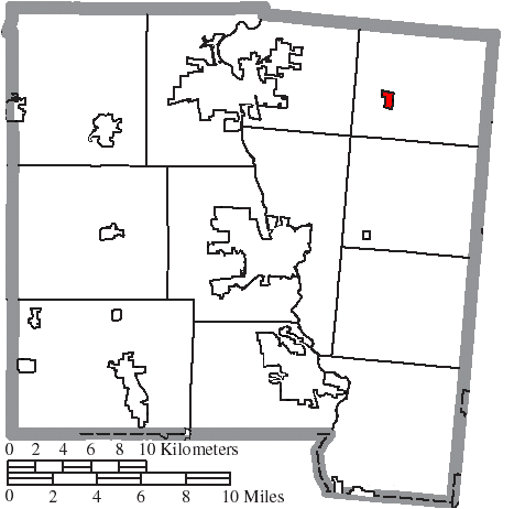 Map of the municipal and township boundaries of Miami County, Ohio, United States, as of the 2000 census, with the location of the village of Fletcher highlighted. Township borders are shown only in unincorporated areas in order to differentiate incorporated and unincorporated areas more clearly.